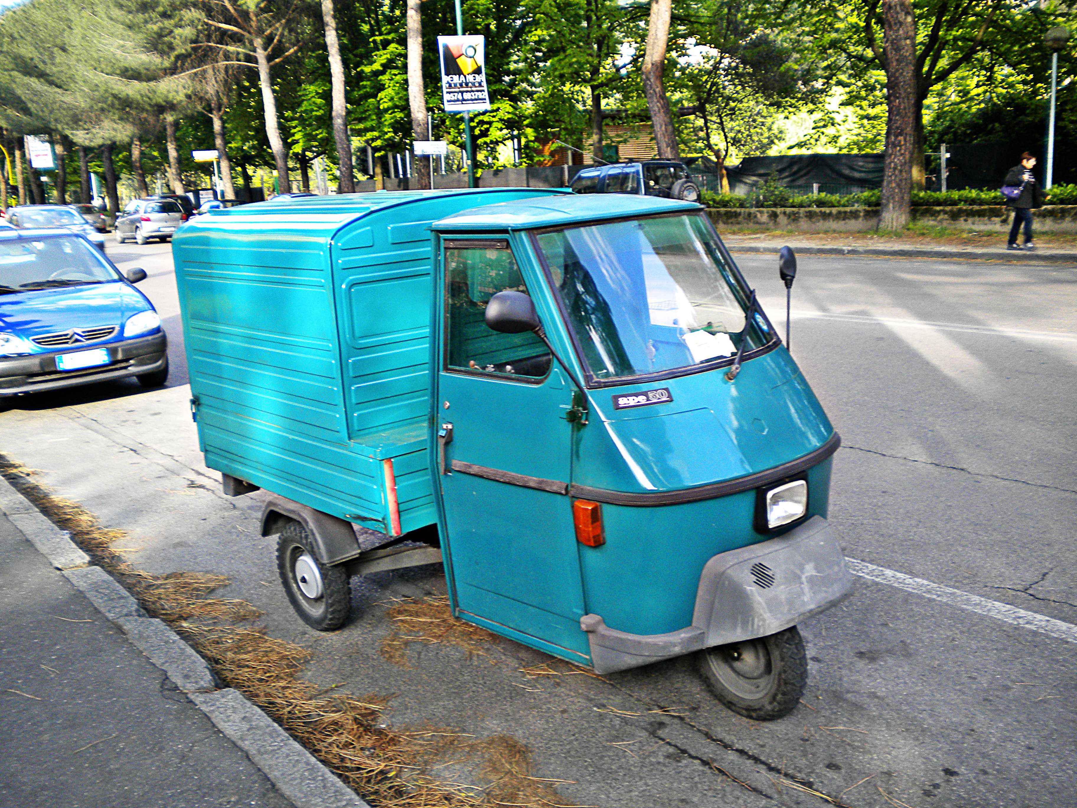 ape cars